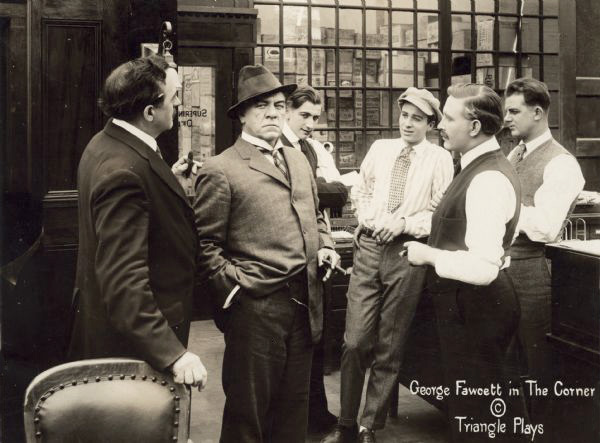 In a scene still for the 1916 silent drama The Corner, the millionaire David Waltham (played by George Fawcett, holding a cigar and scowling) stands in a group of businessmen in an office.